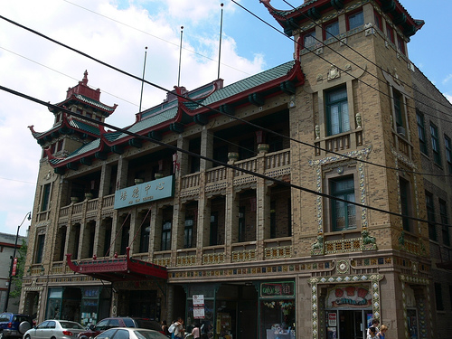 Pui Tak Center of Chicago Chinatown